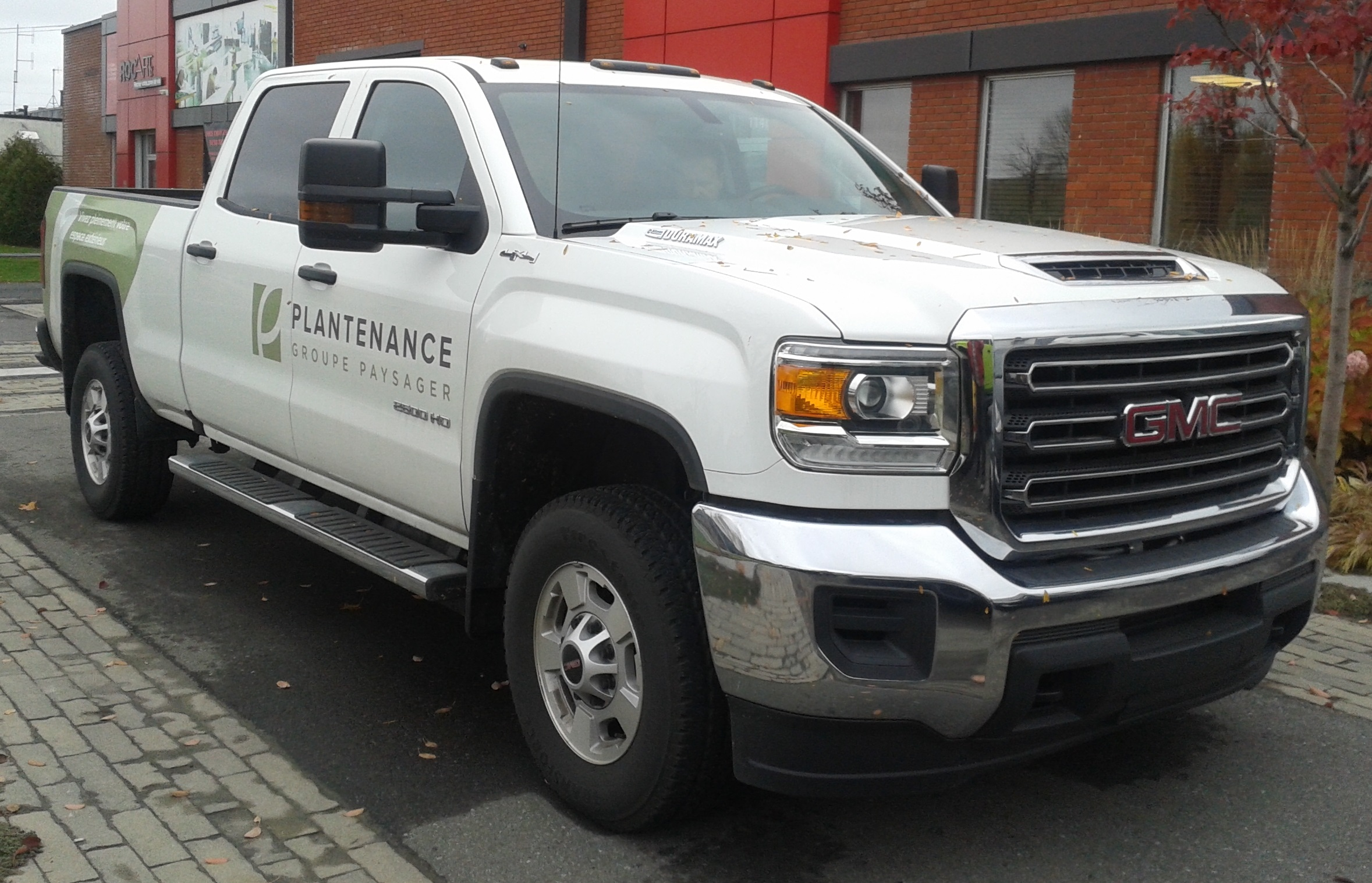 2014-2015 GMC Sierra photographed in Pointe-Claire, Québec , Canada.